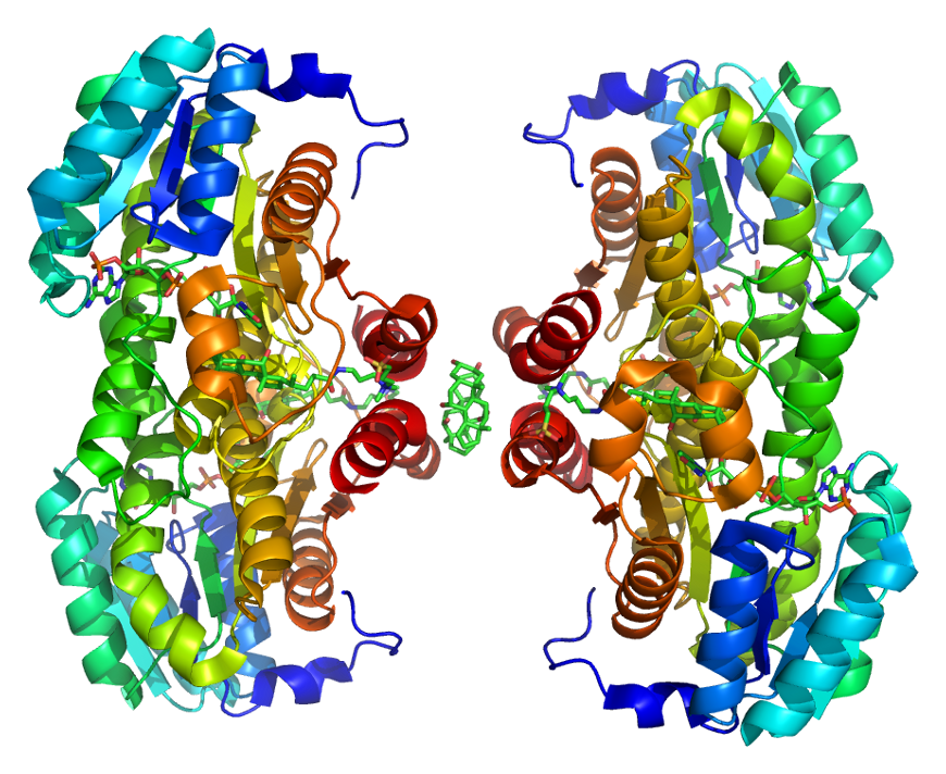 Protein structure image, PDB 1xu7